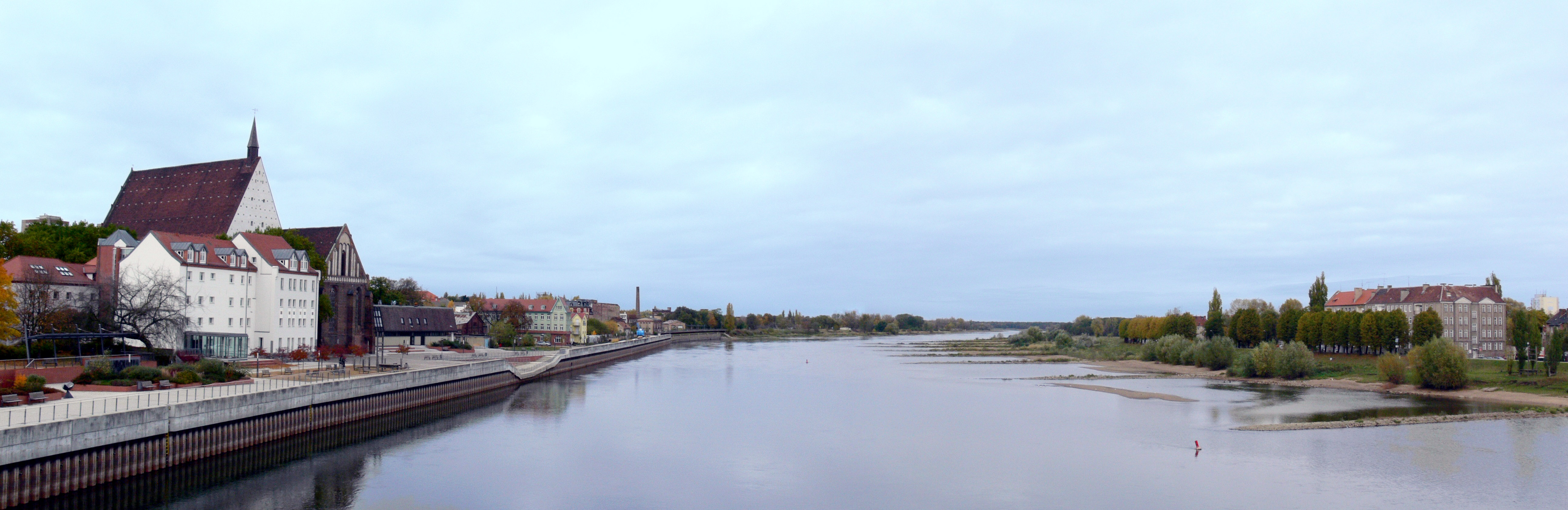 View to the North from border bridge between cities: polish Słubice and german Frankfurt (Oder).